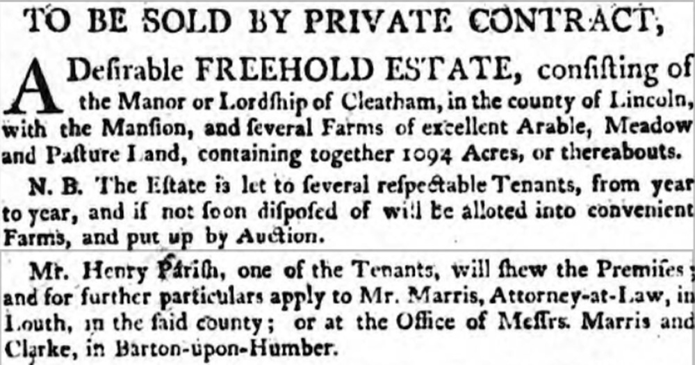 Sale notice for Cleatham Hall, Lincolnshire 1800